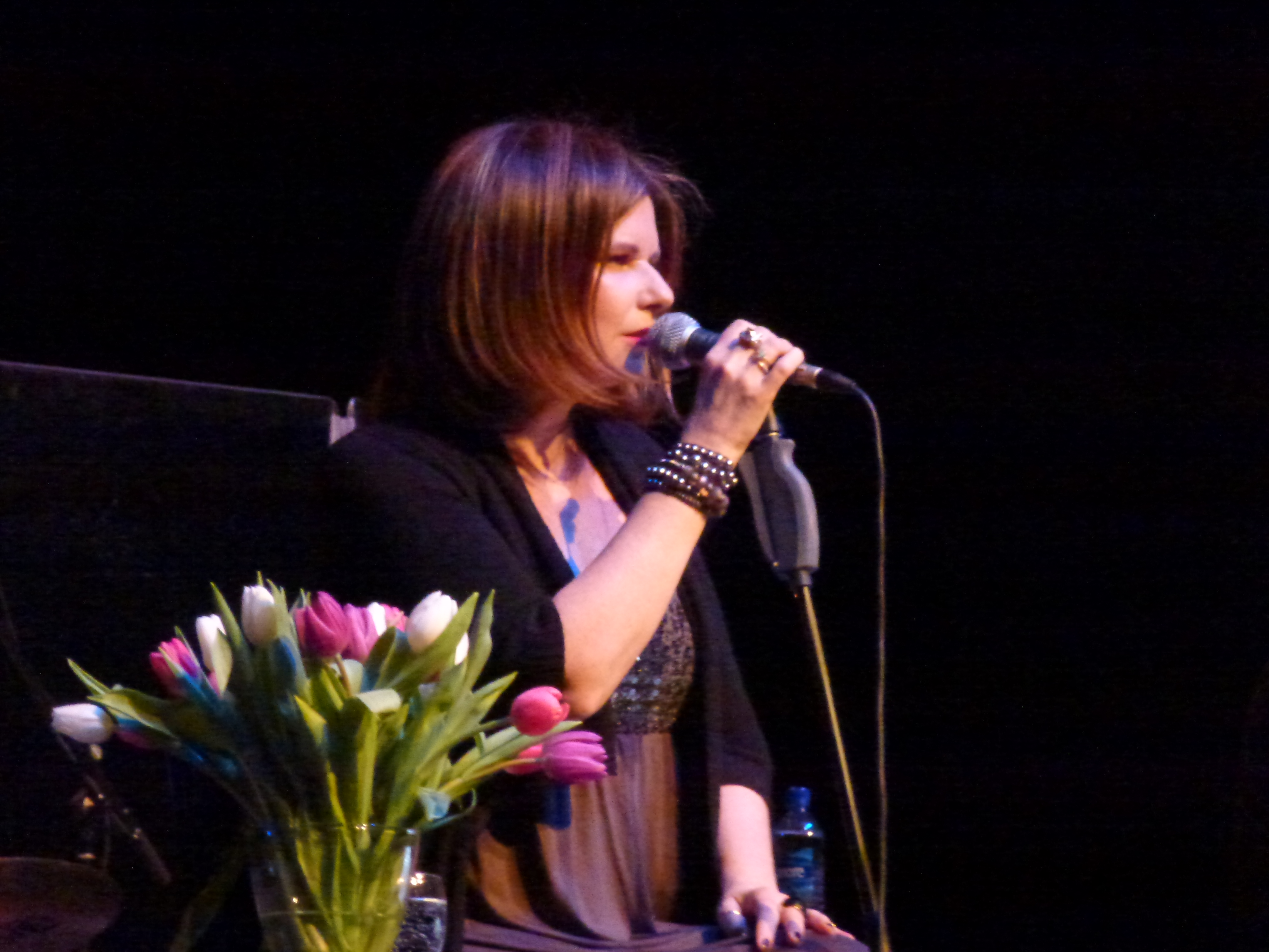 Cowboy Junkies - Barbican 25 01 13